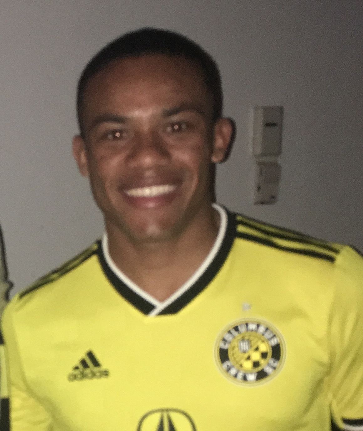 Picture of Robinho at a Columbus Crew SC Meet the Team event in 2019.